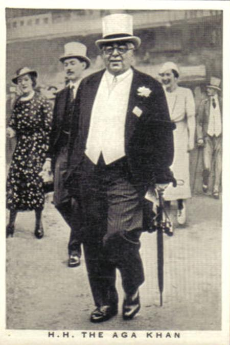 Depicted person: Aga Khan III – 48th Imam of the Nizari Ismaili community (1877-1957)